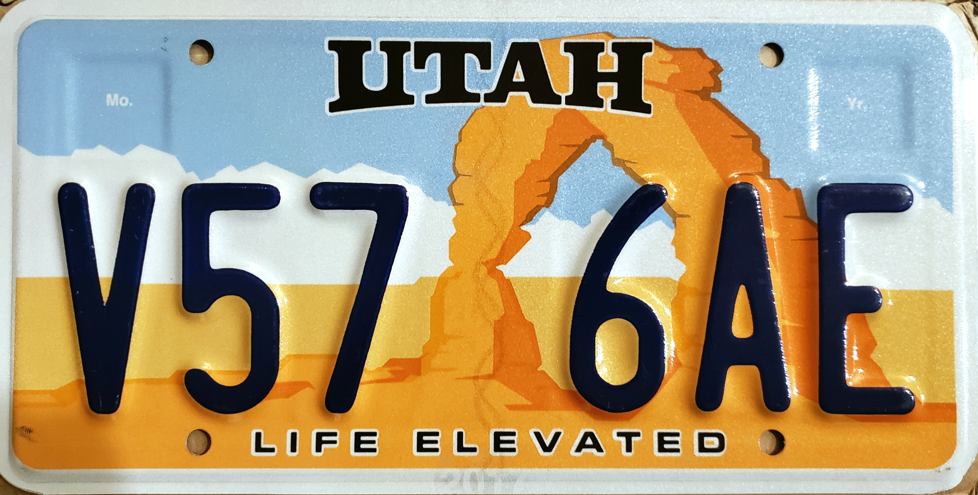 2017 Standard issue Utah license plate, with the arches and "Life Elevated" slogan